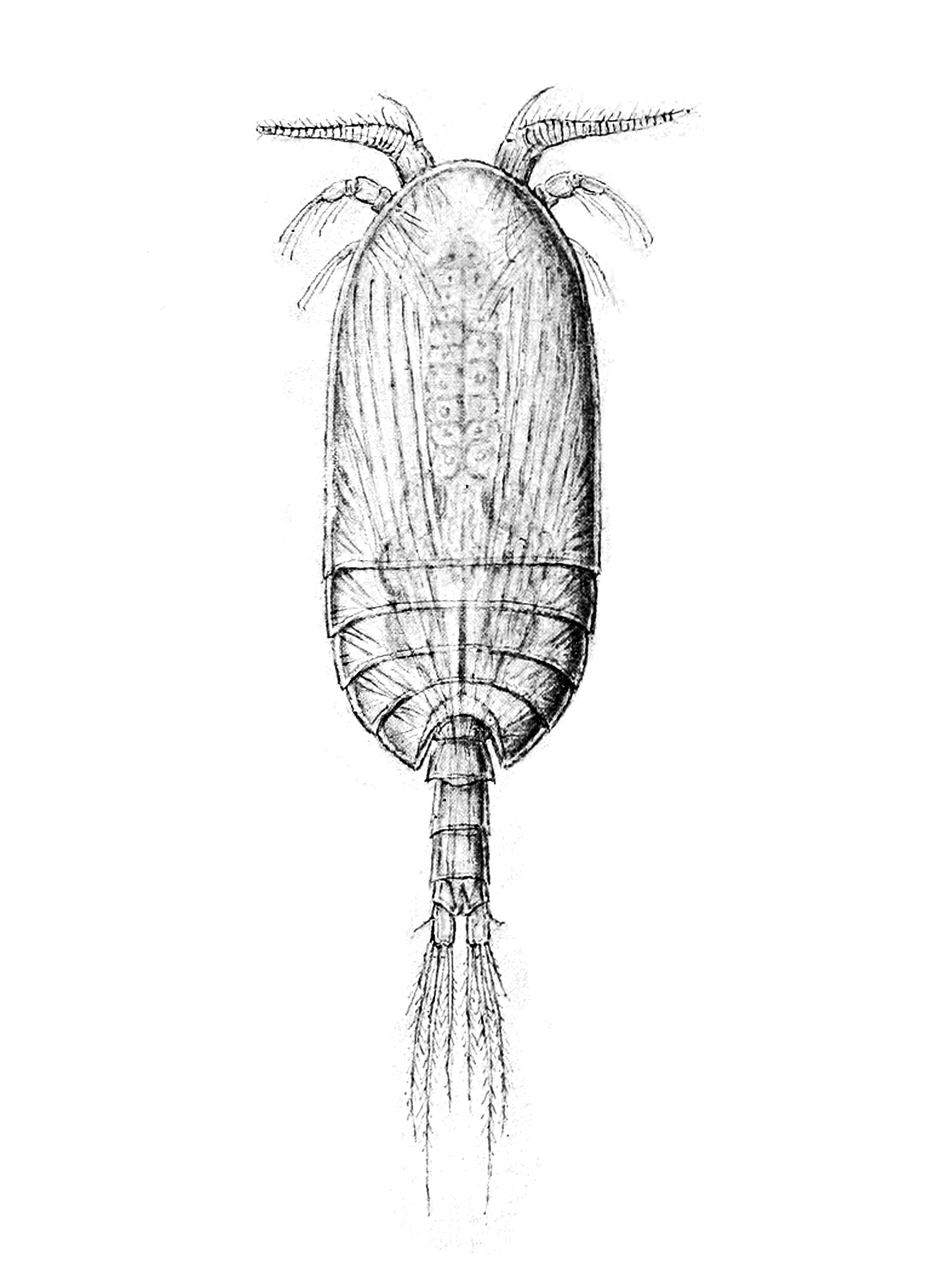 from Plate VI from Sars, G.O. 1921. Copepoda, Supplement. – An account of the Crustacea of Norway 7:1-121, Bergen Museum. Bergen 76 pls.